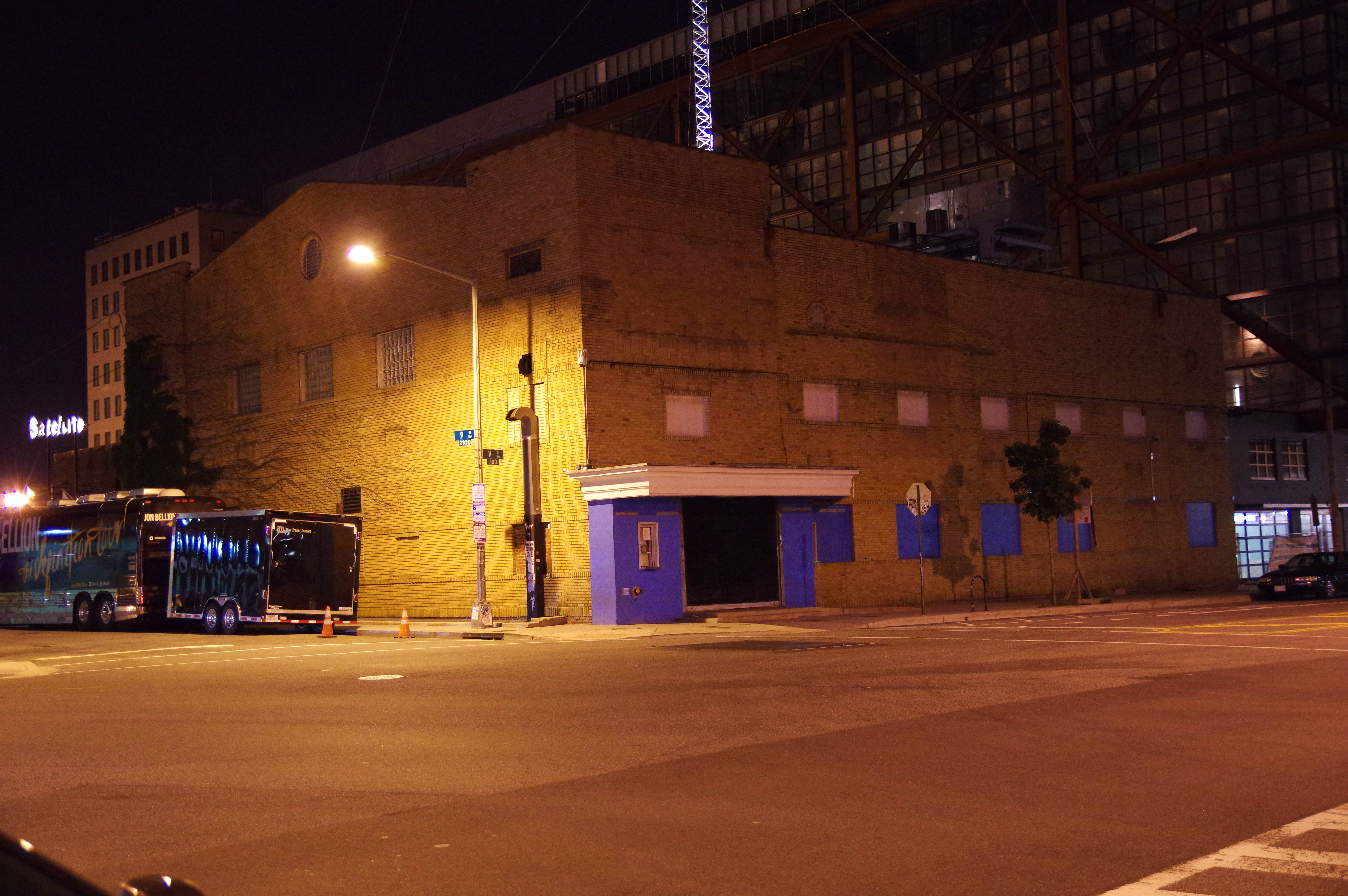 Nightclub 9:30 Closed on a June summer night.